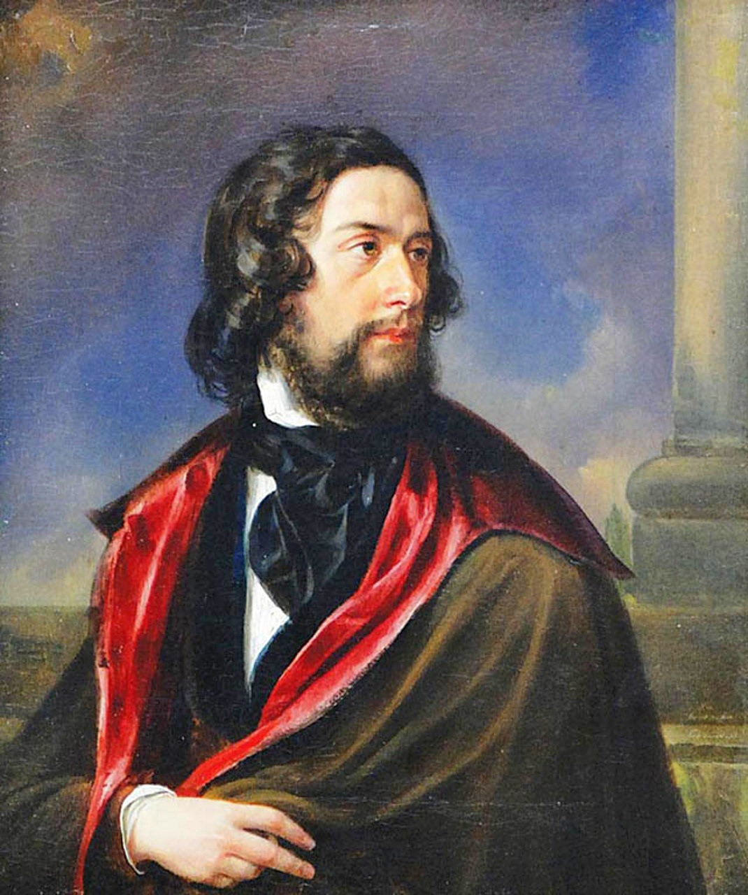 Painting by Jan Nepomucen Głowacki (1802 – July 28, 1847), Polish realist painter of the Romantic era from Krakow, regarded as the most outsanding lanscape painter of the early 19th century in Poland under the foreign partitions. Oil on canvas, 24,5 x 20 cm; sygn. on the right: N./ Głowacki 1842